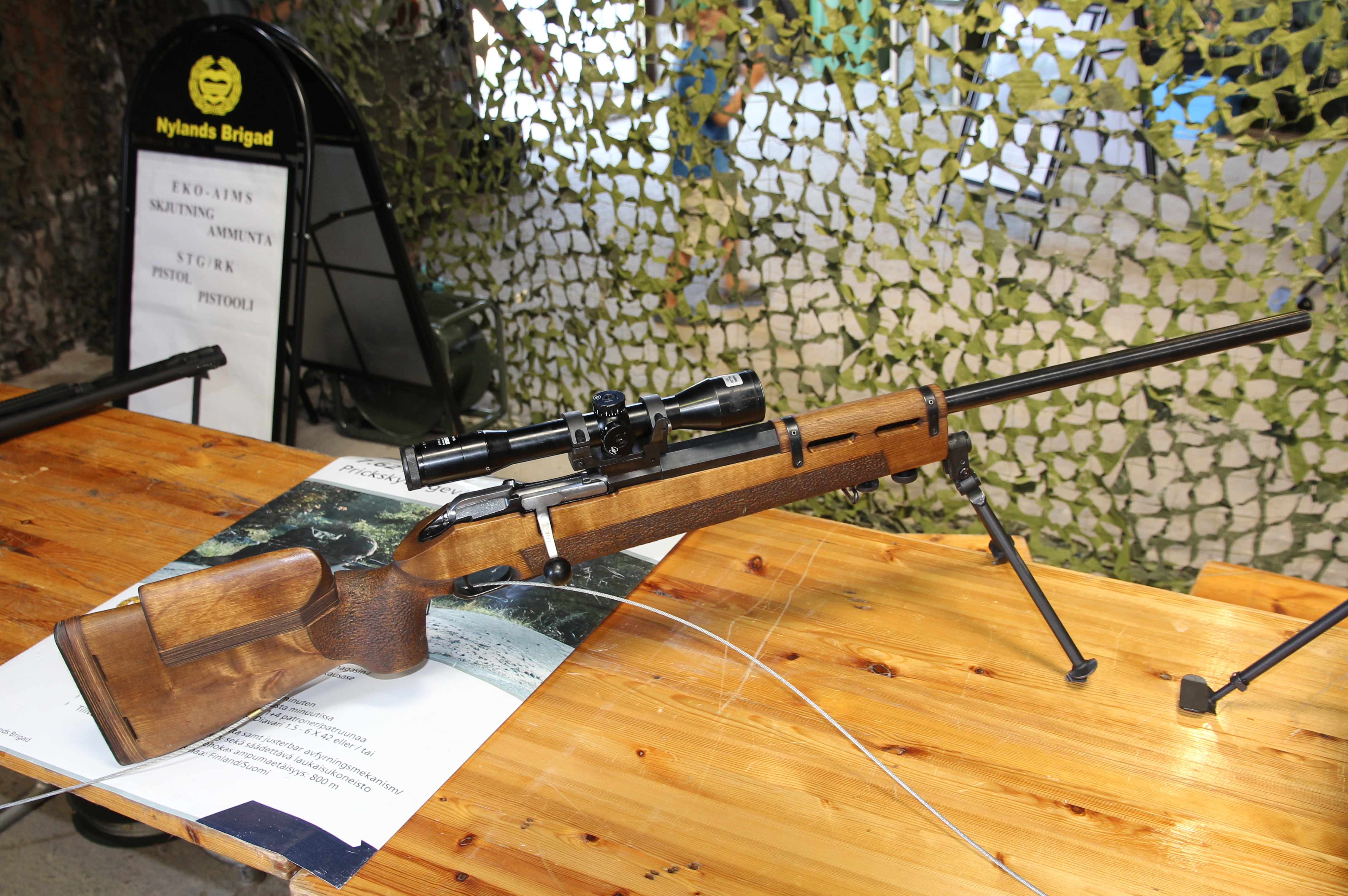 The 7.62 TKIV 85, short for 7.62 Tarkkuuskivääri 85 (7.62 sniper rifle 85), with a Zeiss Diavari ZA 1.5–6×42 telescopic sight mounted on display during Finnish Defence Forces 2013 Flag day in Ekenäs harbour.